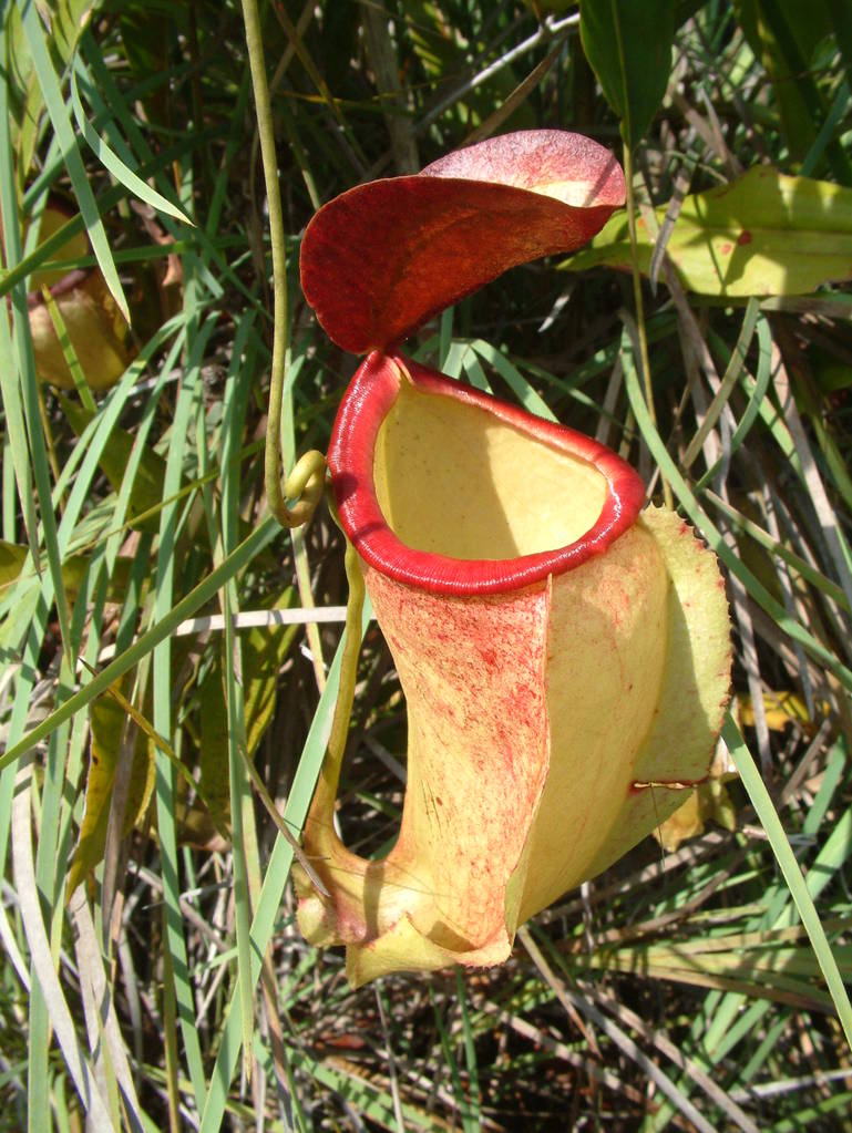 Nepenthes neoguineensis from New Guinea